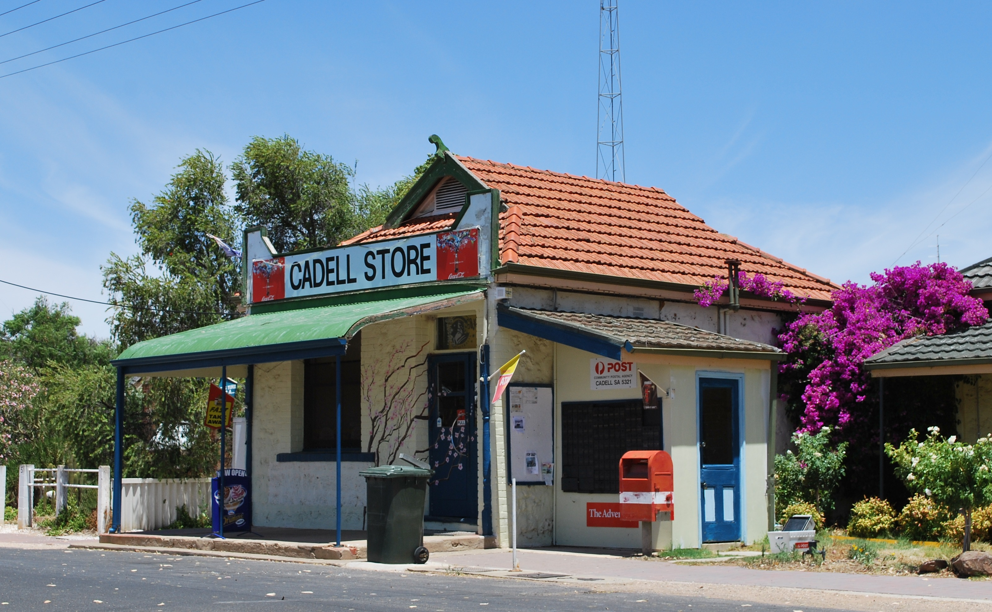 General store and post office at Cadell, South Australia